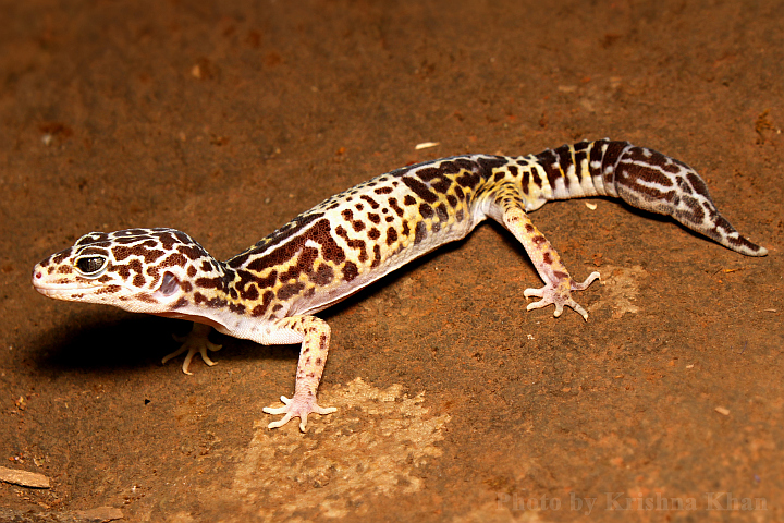 West Indian leopard gecko Eublepharis fuscus by Krishna Khan Amravati